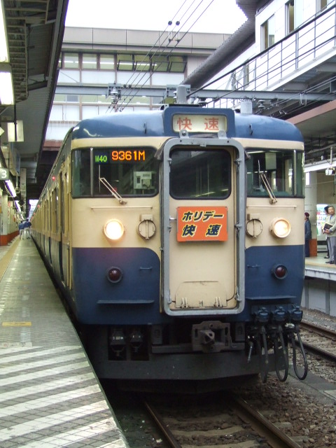 “Holiday Rapid〟of Model 115,East Japan Railway,Japan